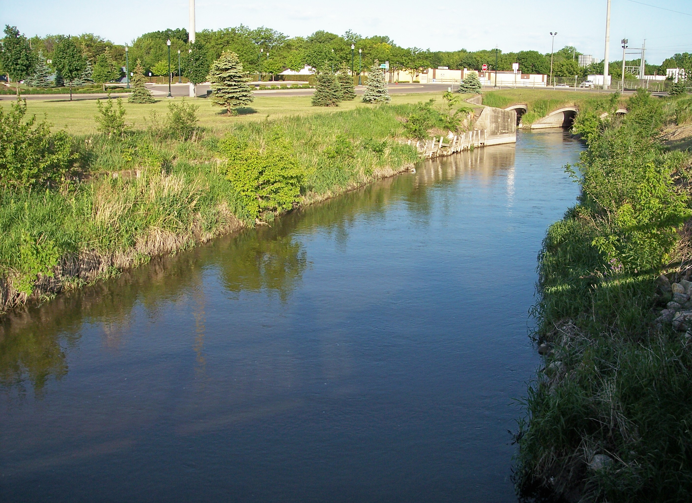 The Redwood River in downtown Marshall, Minnesota, as viewed downstream from Main Street (U.S. Route 59)